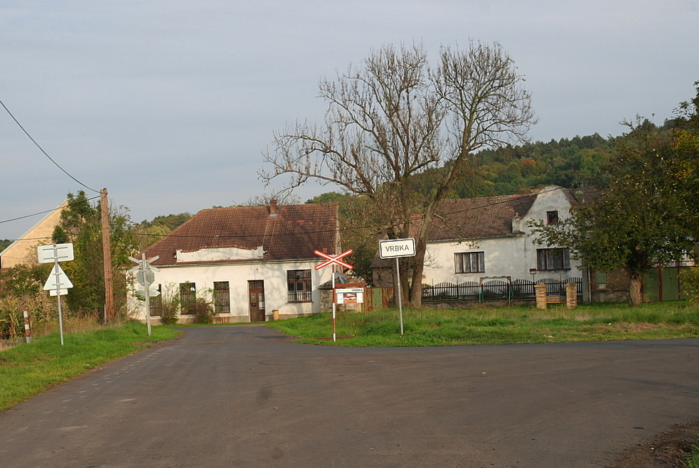 Vrbka, part of Budyně nad Ohří, Litoměřice district